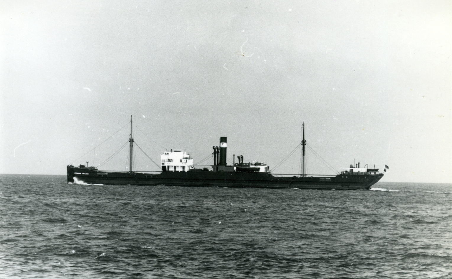 General cargo ship HERMANN FRITZEN built at William Doxford & Sons, Ltd., Sunderland/UK (yard № 359, launched: 12-04-1906, delivered: 05-1906) as NONSUCH for Bowles Bros, London, later names: 1914 CLEARWAY, 1924 EFSTATHIOS, 1925 WERNER KUNSTMANN, 1938 HERMANN FRITZEN, sunk in Allied bombing of Hamburg 1944, raised 1949 and repaired in Emden, BU at Eckhardt & Co, Hamburg/Germany, 24-04-1959; collection J. Robert Boman (1926 - 2002) owned by Sjöhistoriska museet.